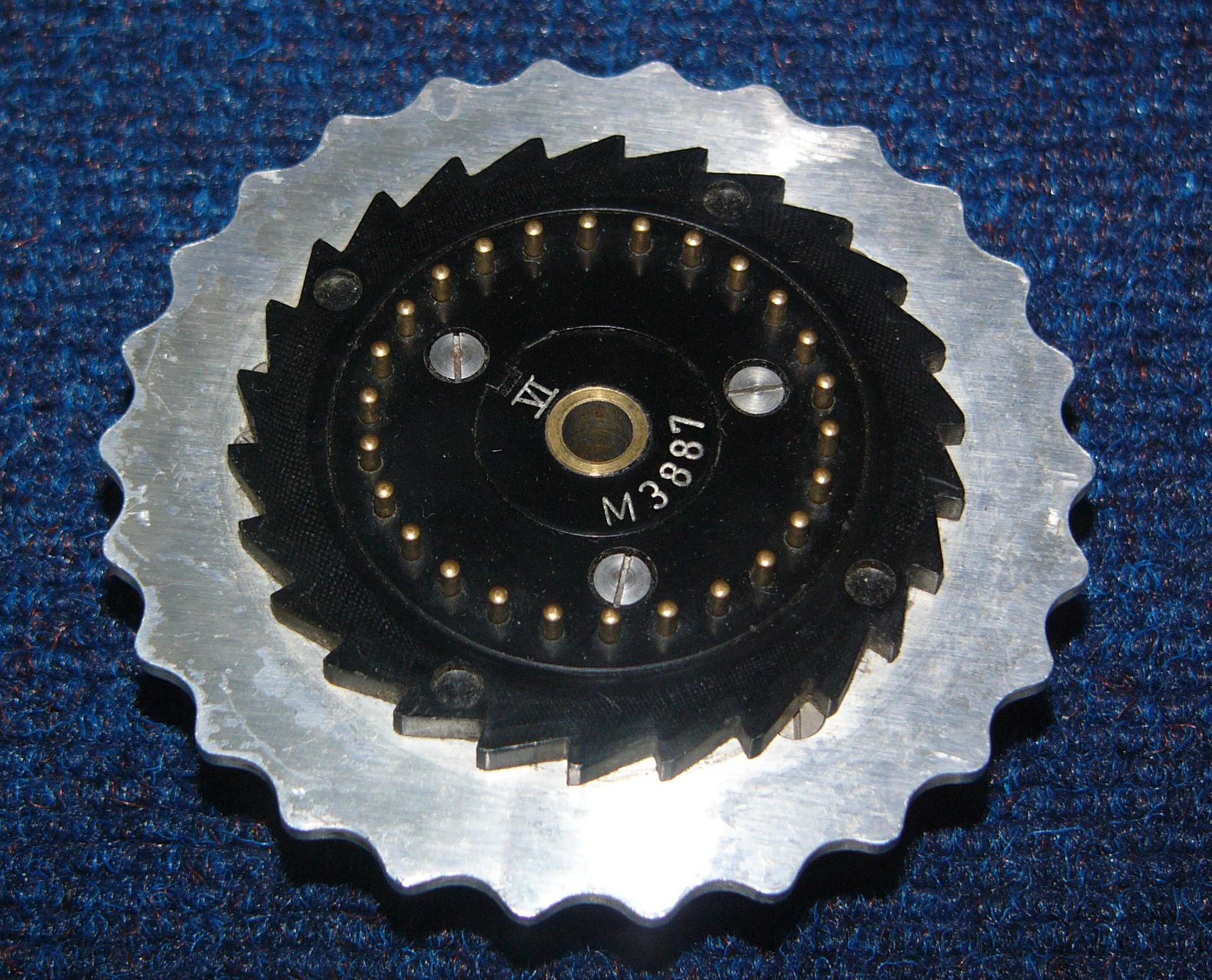 A rotor from an Enigma machine, showing the outer finger grooves, the ratchet notches and the circle of 26 pins. A Roman numeral VI is visible on the rotor, indicating that this was a Naval Enigma rotor. This rotor was on display at Bletchley Park museum. Original photograph by User:Matt Crypto, released into the public domain.